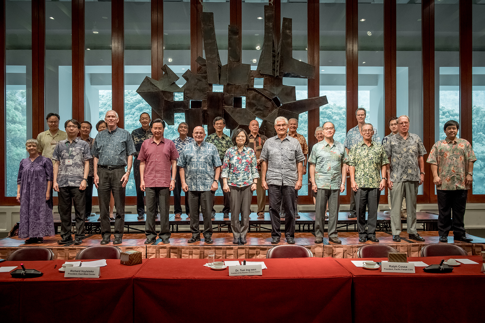 President Tsai and scholars from the East West Center and the Pacific Forum of the CSIS. (2017/10/28) 授權方式及範圍：中華民國總統府│政府網站資料開放宣告 Authorization Method & Scope: Office of the President, Republic of China (Taiwan) | Government Website Open Information Announcement